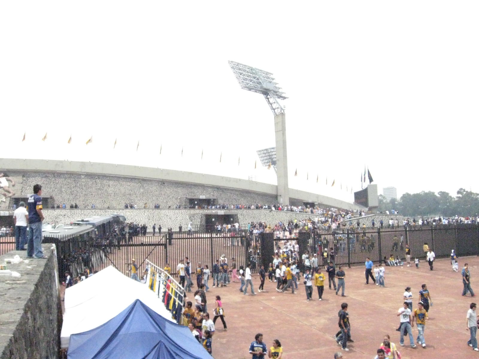 Fans of the Pumas leaving the Ciudad Universitaria Olympic Stadium after a game on Aug 24, 2008